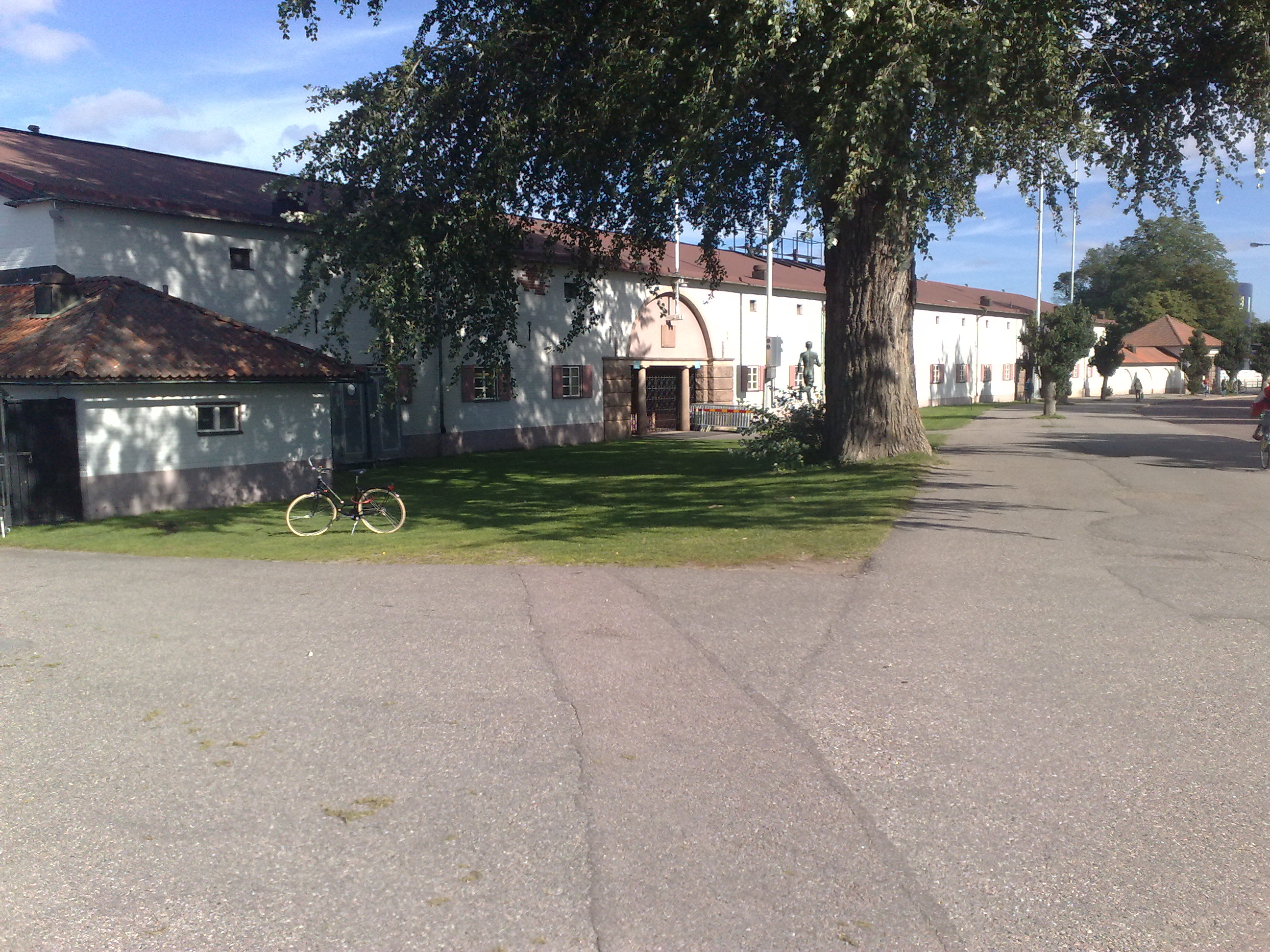 Strömvallen football stadium in Gävle, Sweden.